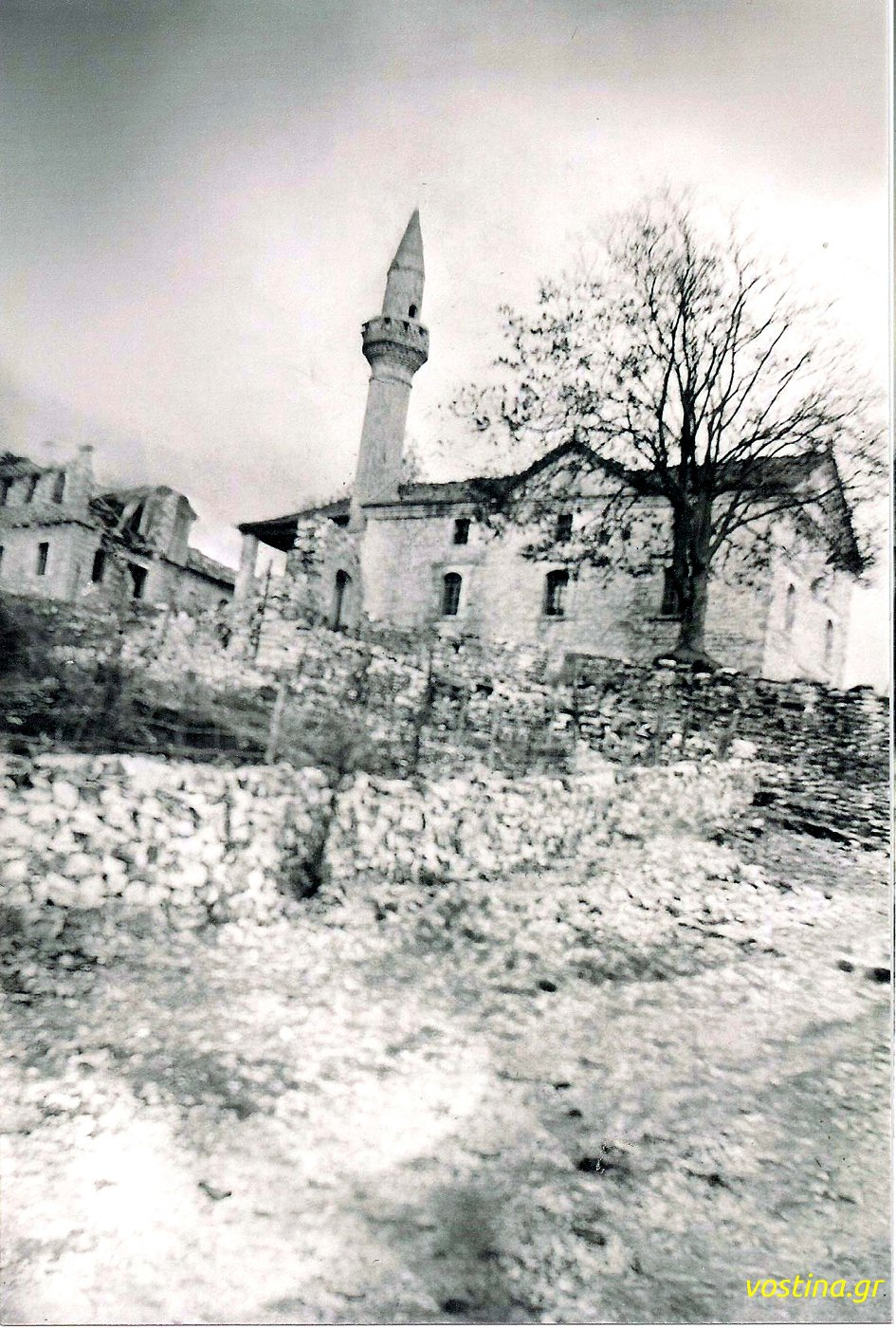 Voshtina Mosque (western side). Circa 1910. Photographer: Yeorgios Pantazis.